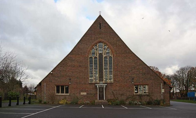 King Charles the Martyr Church, Mutton Lane, Potters Bar